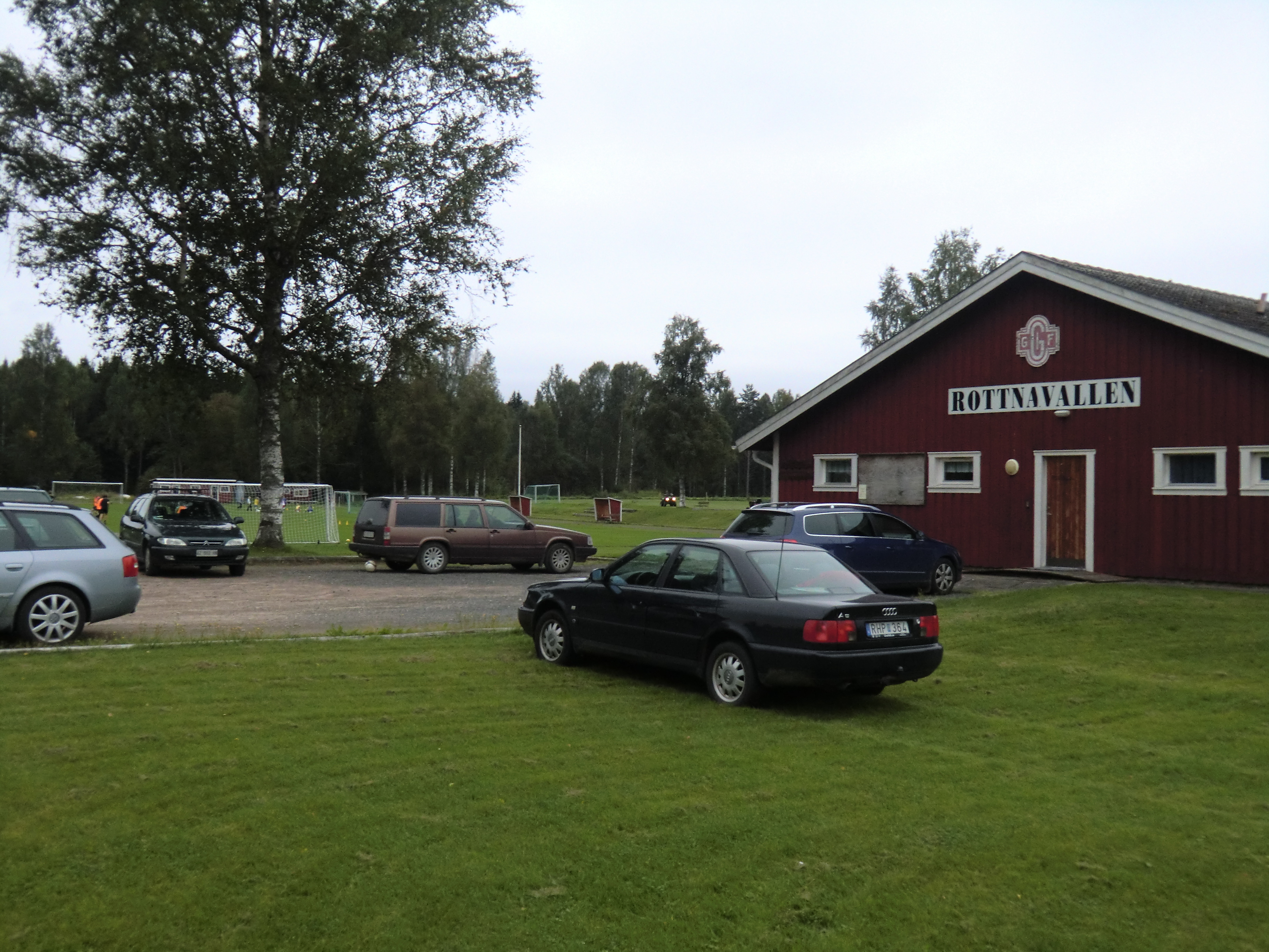 Rottnavallen the homestead of the soccerteam Gräsmarks GoIF in Gräsmark, Värmland, Sweden.